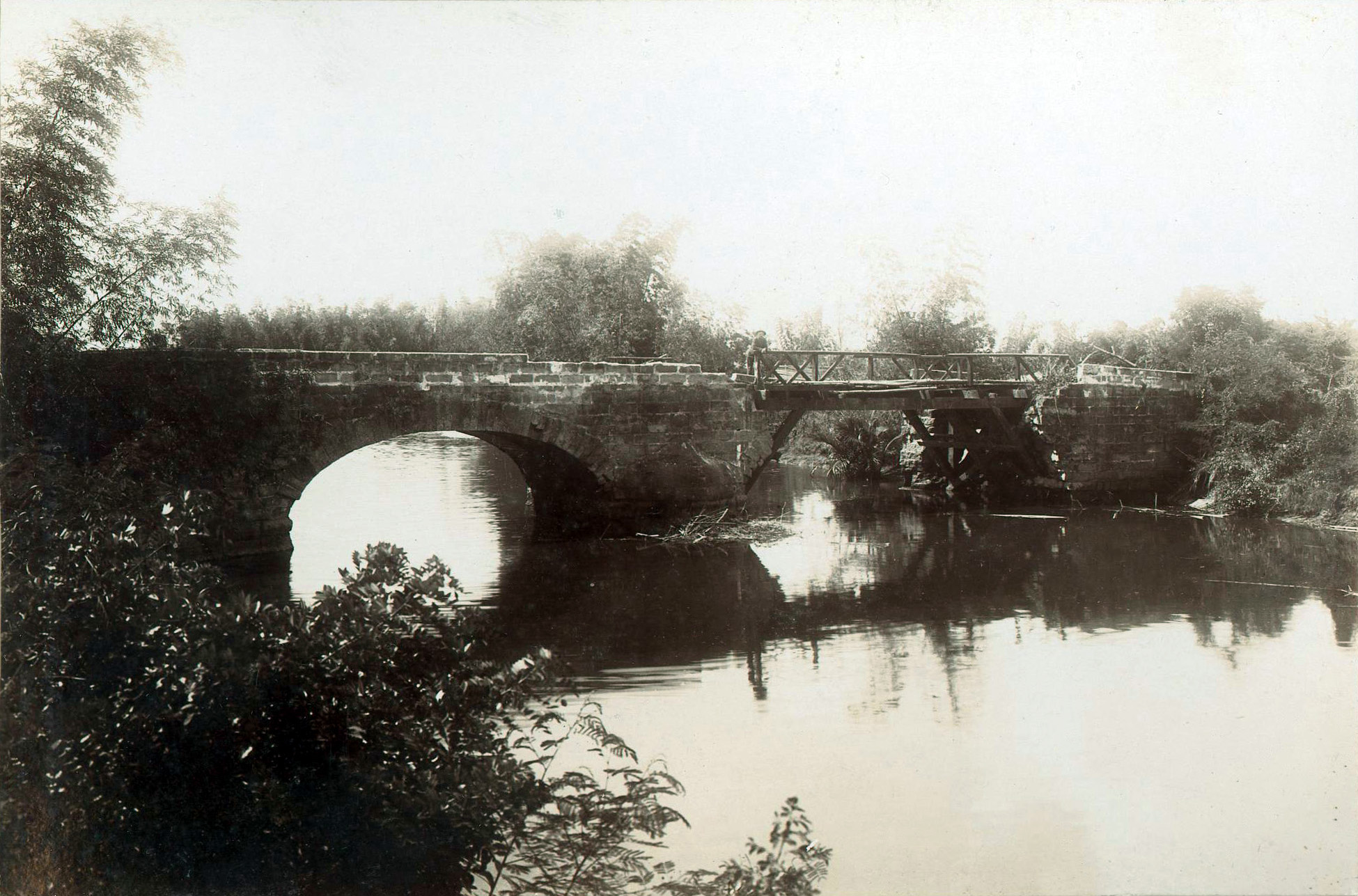 The reconnected Zapote River Bridge in 1899 being guarded by an American soldier taken after the battle of June 13, 1899 between Filipino and American soldiers during the Philippine-American War. One span of the bridge was removed by the locals and substituted by a wooden span, which was burned down, on or before the fighting.